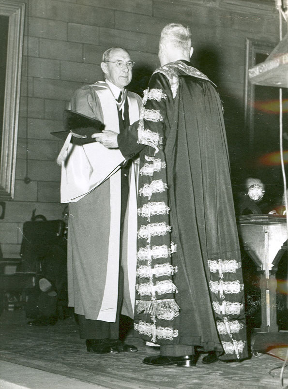 The Chancellor of the University of Sydney, Sir Charles Bickerton Blackburn, conferring Sir Norman McAlister Gregg with the degree of Doctor of Science (honoris causa)